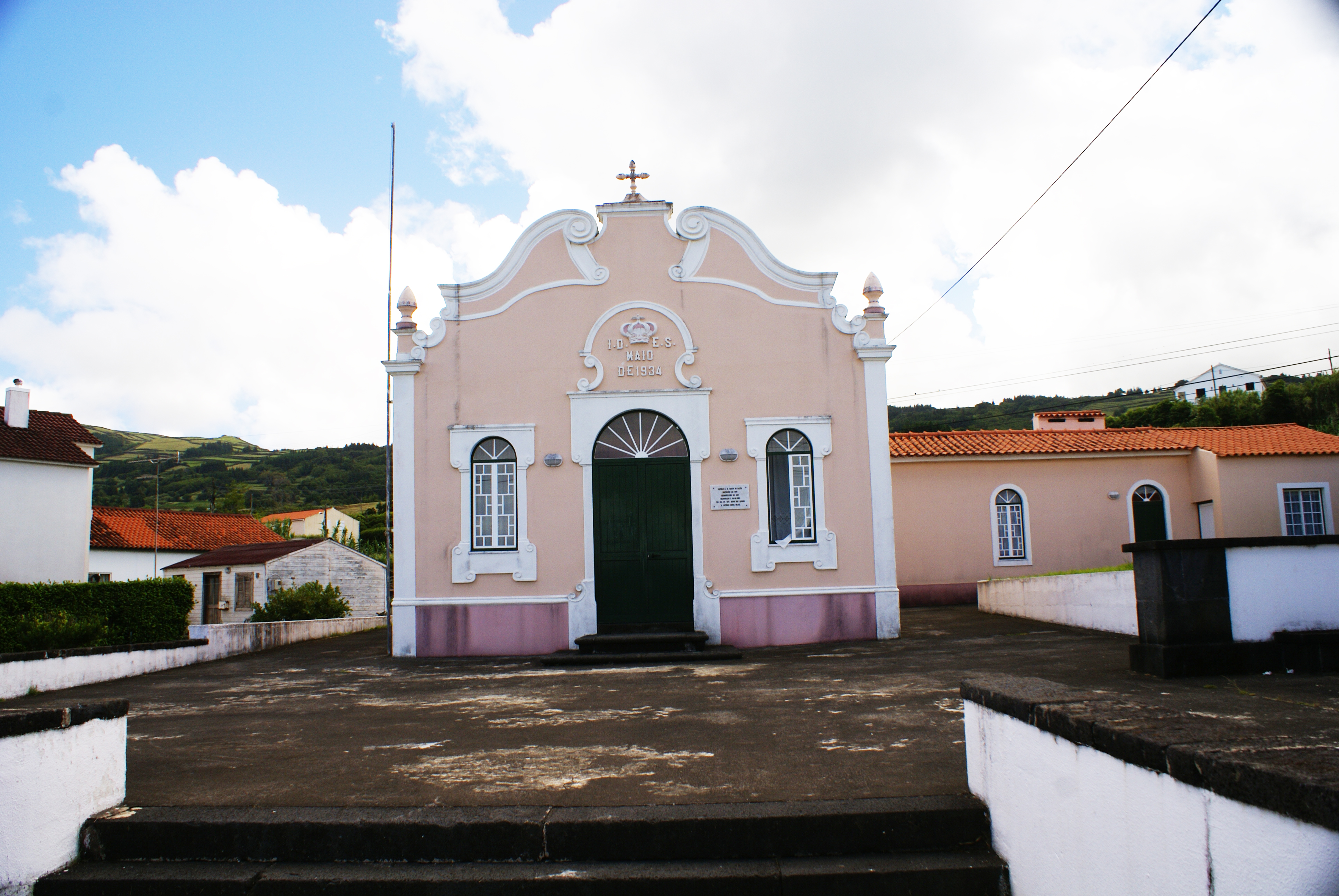 Império do Divino Espírito Santo do Salão, fachada, Salão, concelho da Horta, ilha do Faial, Açores, Portugal